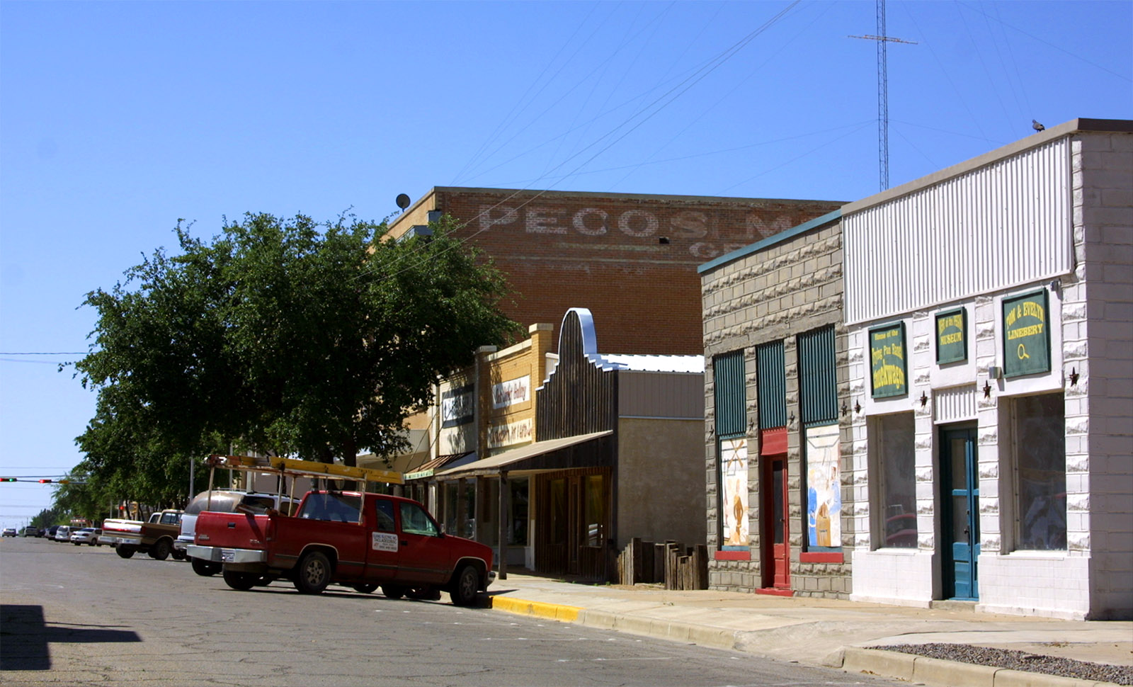 Storefronts in historic Pecos, Texas - taken by me in April 2004